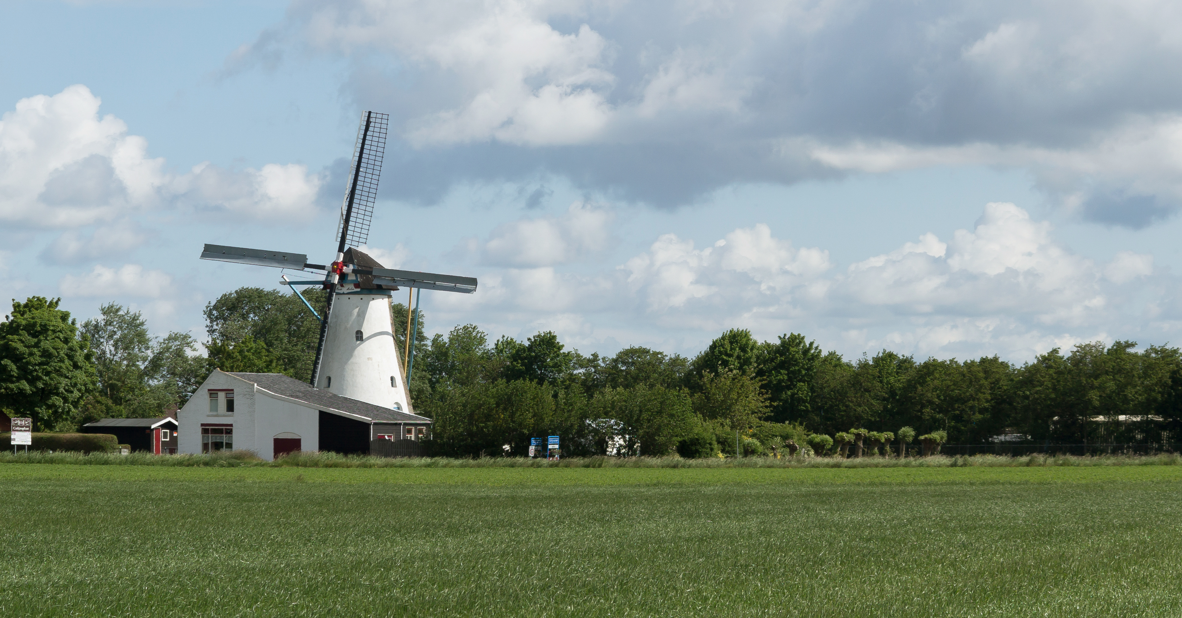 Colijnsplaat, windmill: de Oude Molen